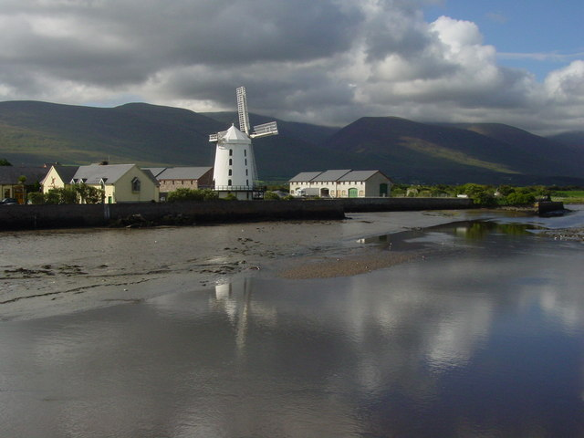 Blennerville Windmill near Tralee Blennerville Windmill seen from the N86. The windmill is open to the public.